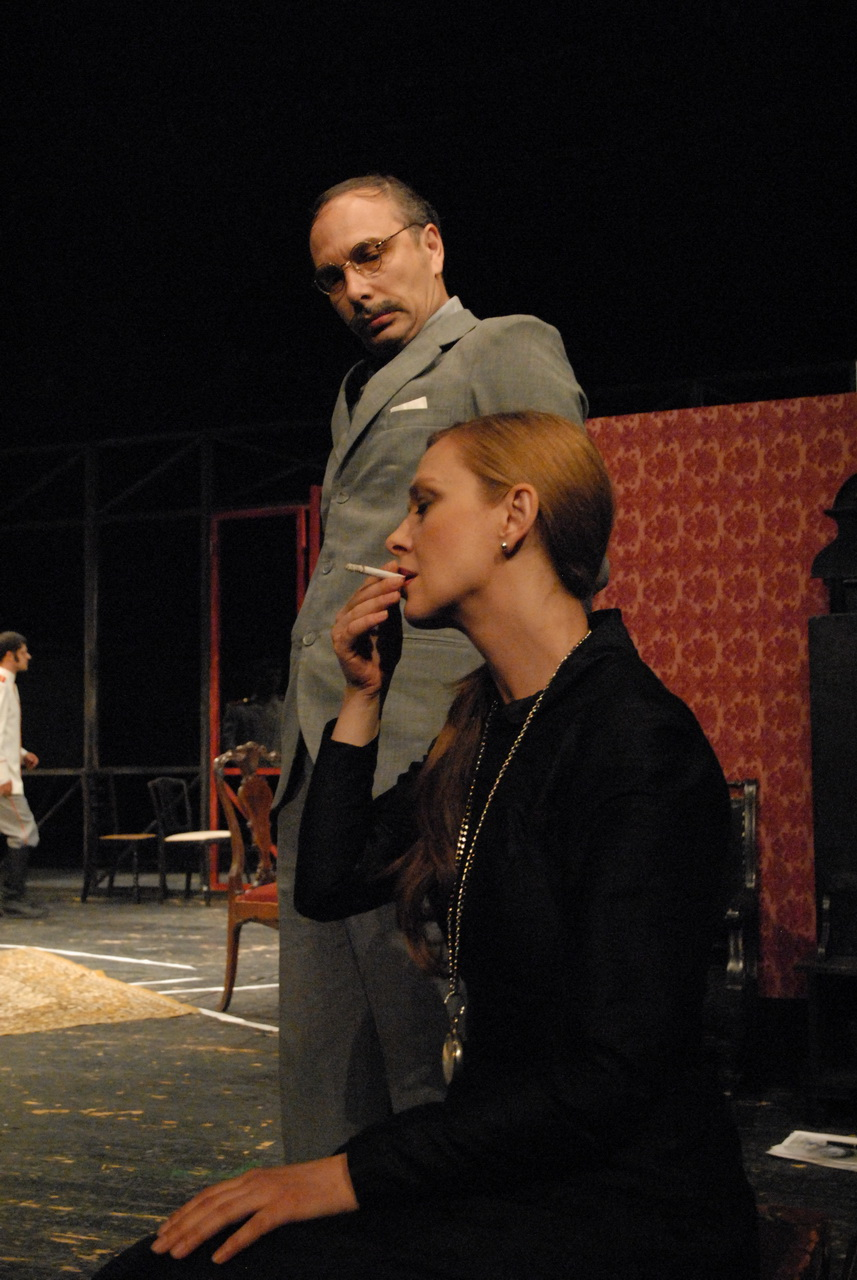 "Three Sisters", play by the Russian author and playwright Anton Chekhov; directed by Radoslav Milenković Drama of th SNT, Novi Sad, 2008/09; Draginja Voganjac, Aleksandar Gajin Srpski (latinica): "Tri sestre", drama ruskog pisca Antona Čehova; reditelj Radoslav Milenković, Drama SNP-a, Novi Sad, 2008/09; Draginja Voganjac, Aleksandar Gajin Српски (ћирилица): "Три сестре", драма руског писца Антона Чехова; редитељ Радослав Миленковић, Драма СНП-а, Нови Сад, 2008/09; Драгиња Вогањац, Александар Гајин